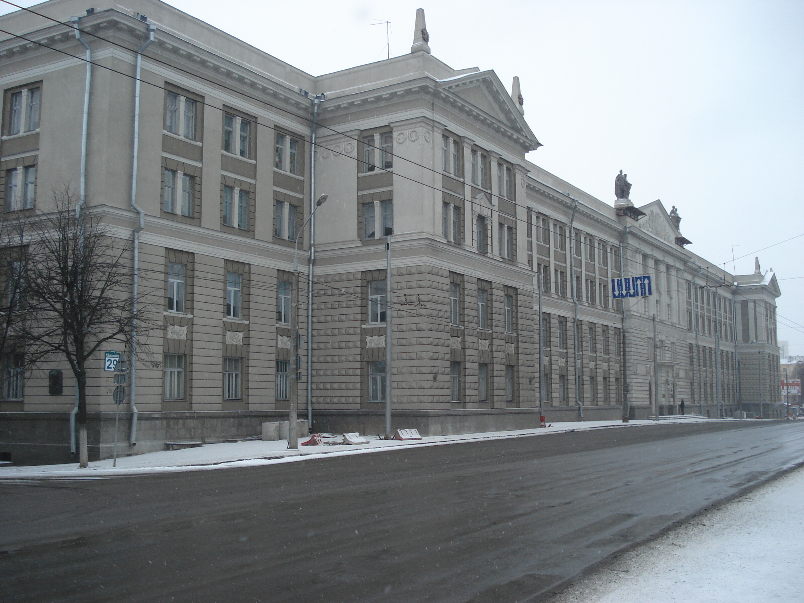 Former Cloister of Marians, Minsk